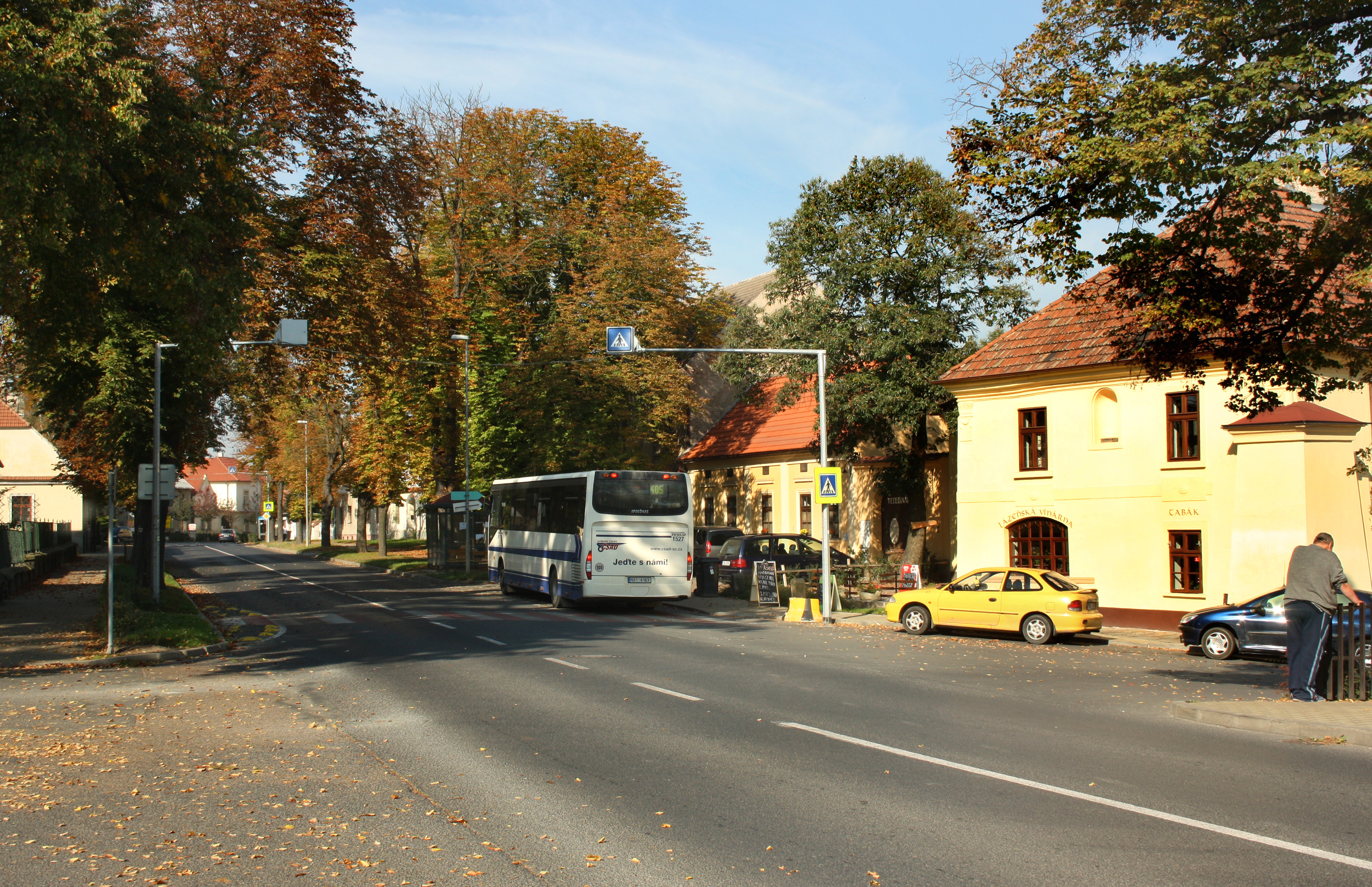 Hlavní street in Lázně Toušeň, Czech Republic